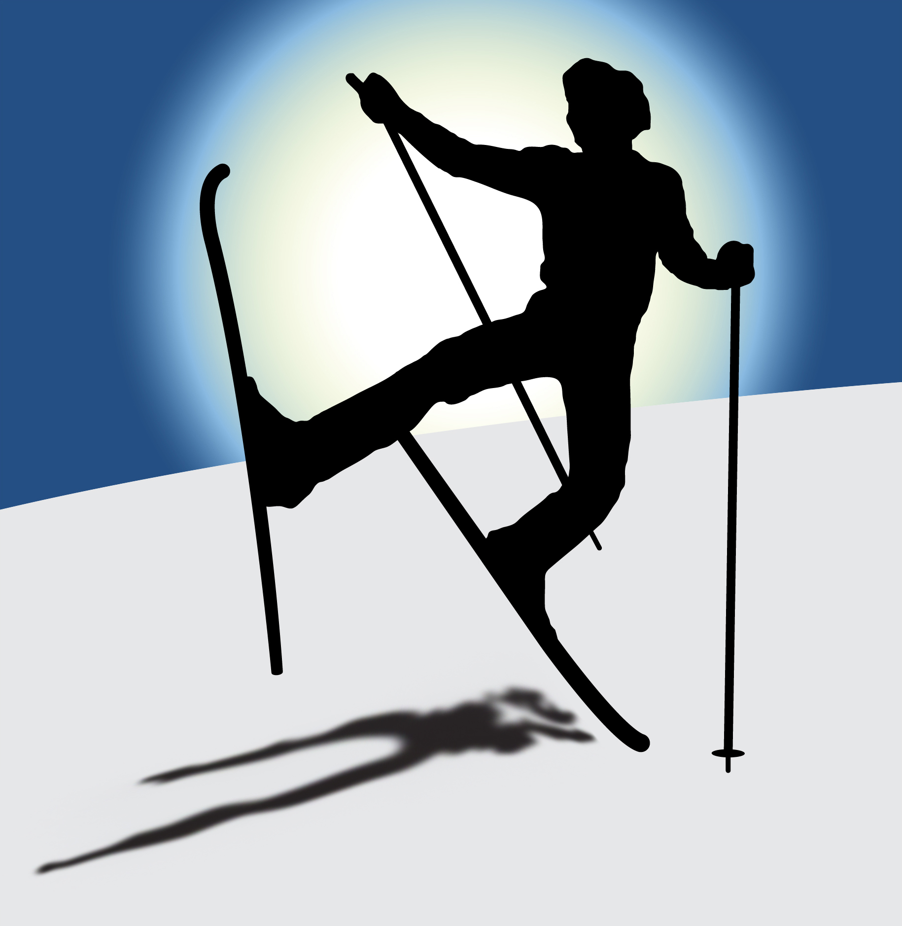 Schematic depiction of the freestyle discipline acroskiing